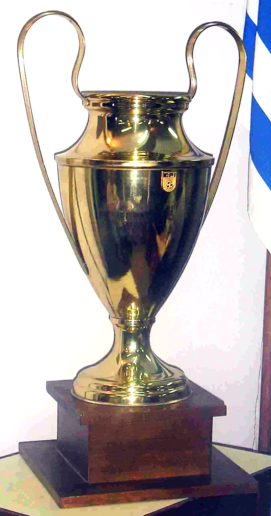 Trophy of Copa El País, an uruguayan football tournament.